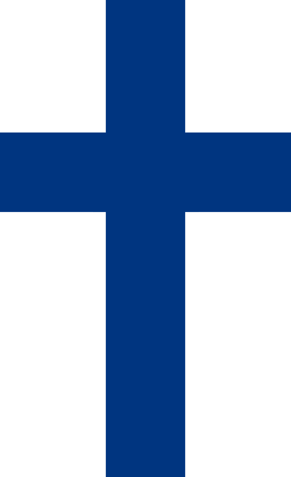 The Finnish state flag